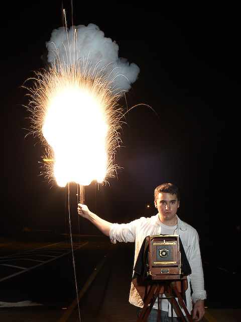 1909 Victor (Smith-Victor) flash lamp 1903 View camera